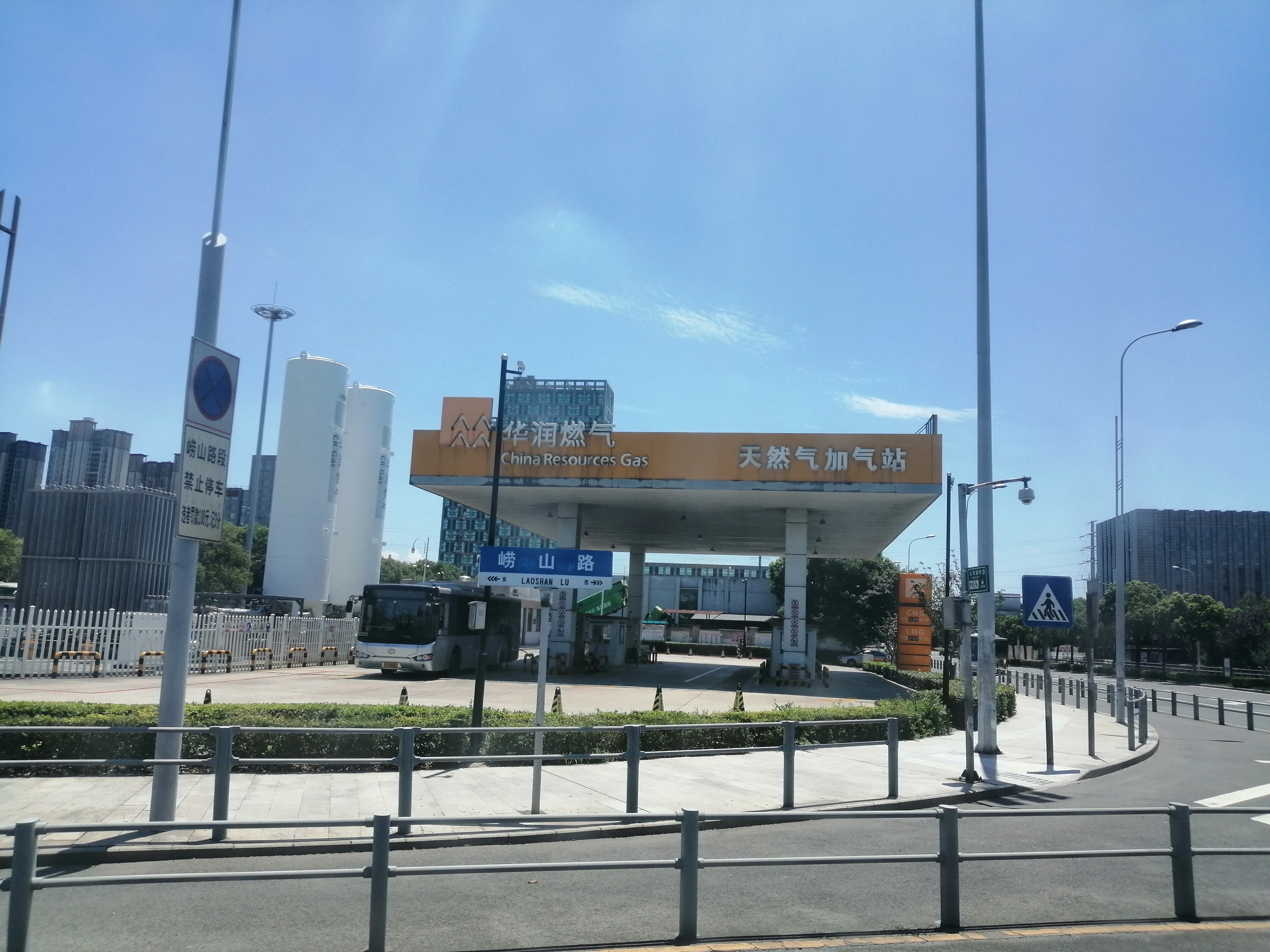 China Resources Gas station, located on Laoshan Road, Kunshan. This station is used for buses only.